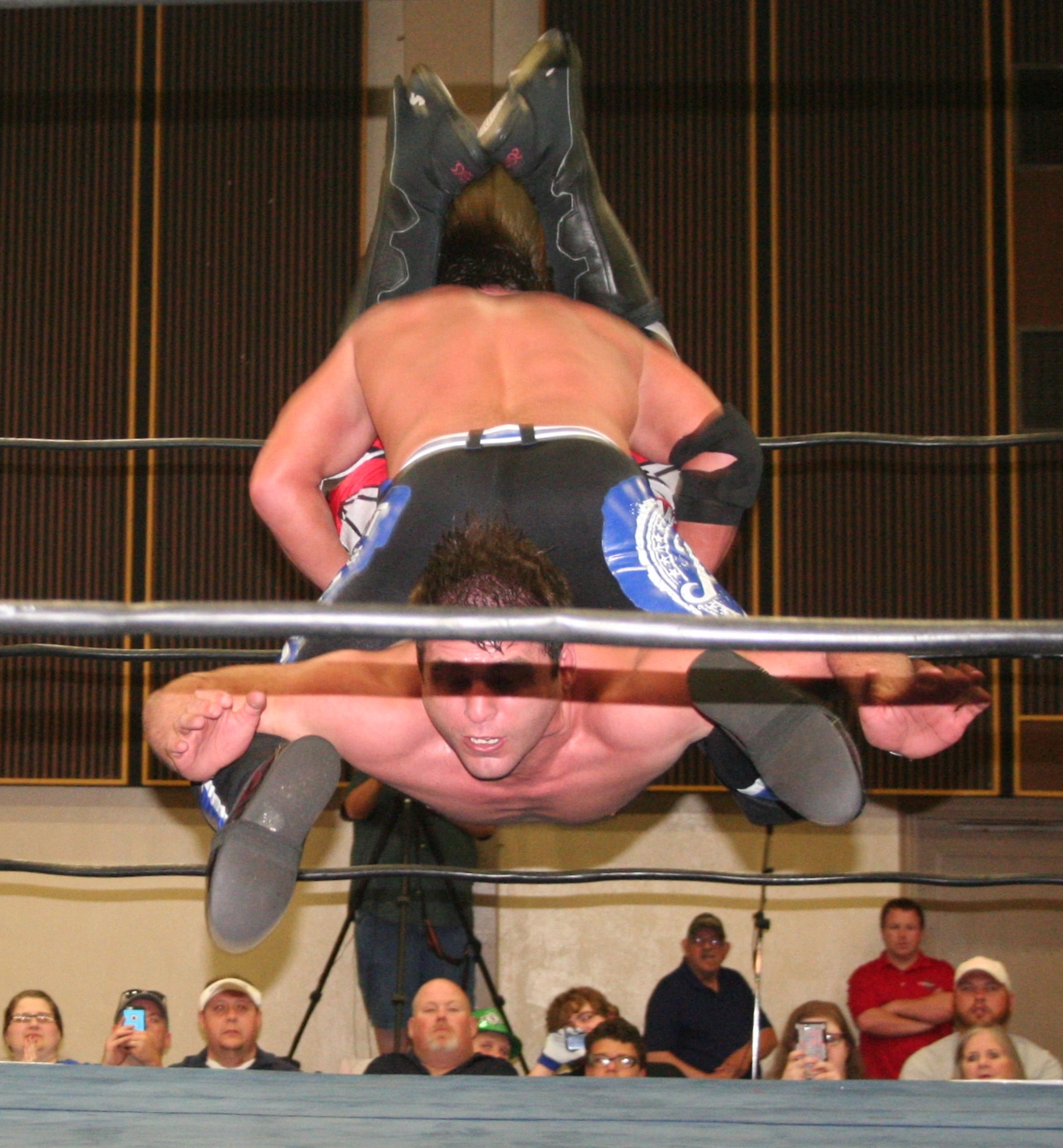 A.J. Styles delivering a Styles Clash to Chase Owens